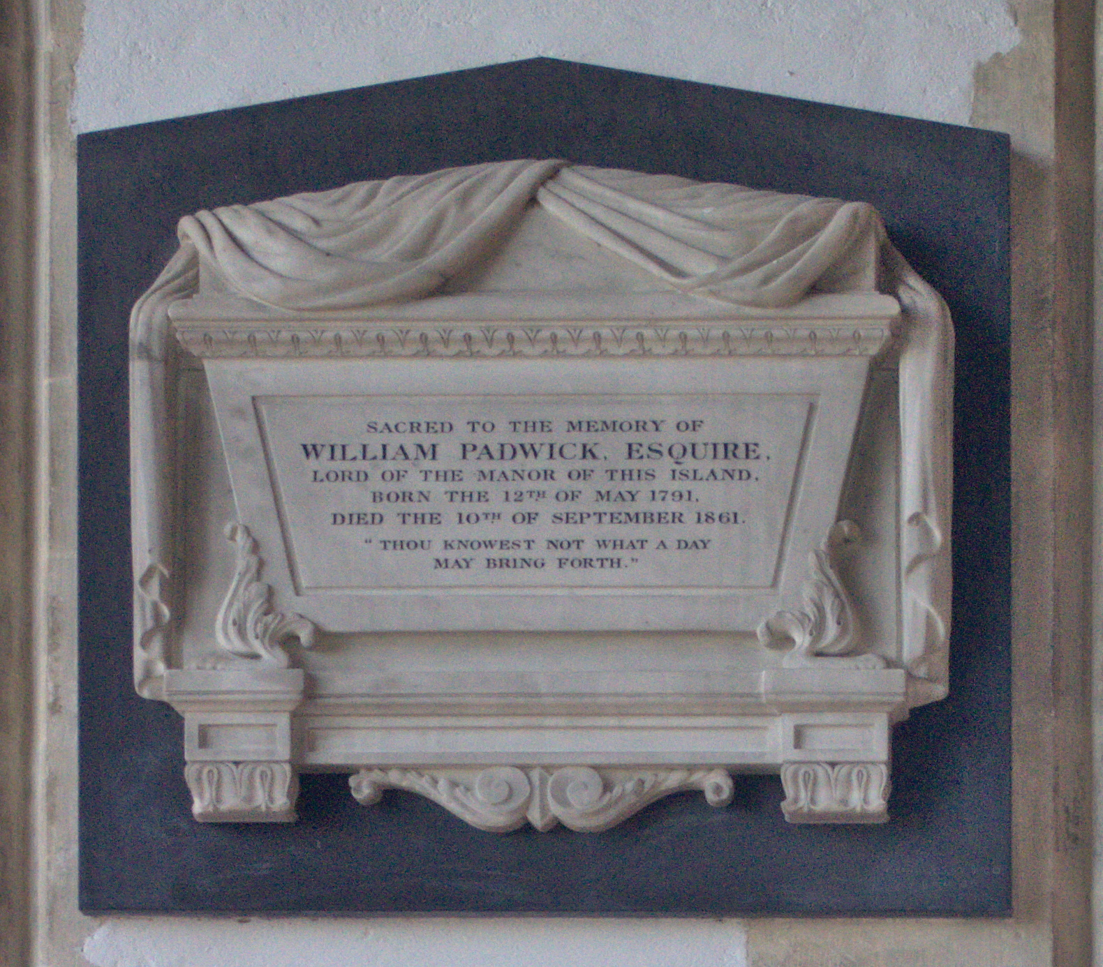 Wall-mounted monument to William Padwick (1791–1861) in St Mary's parish church, South Hayling, Hampshire